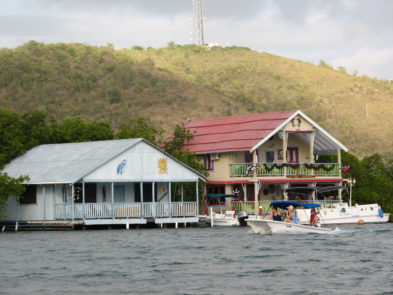 Homes in La Pargüera, Lajas, Puerto Rico.